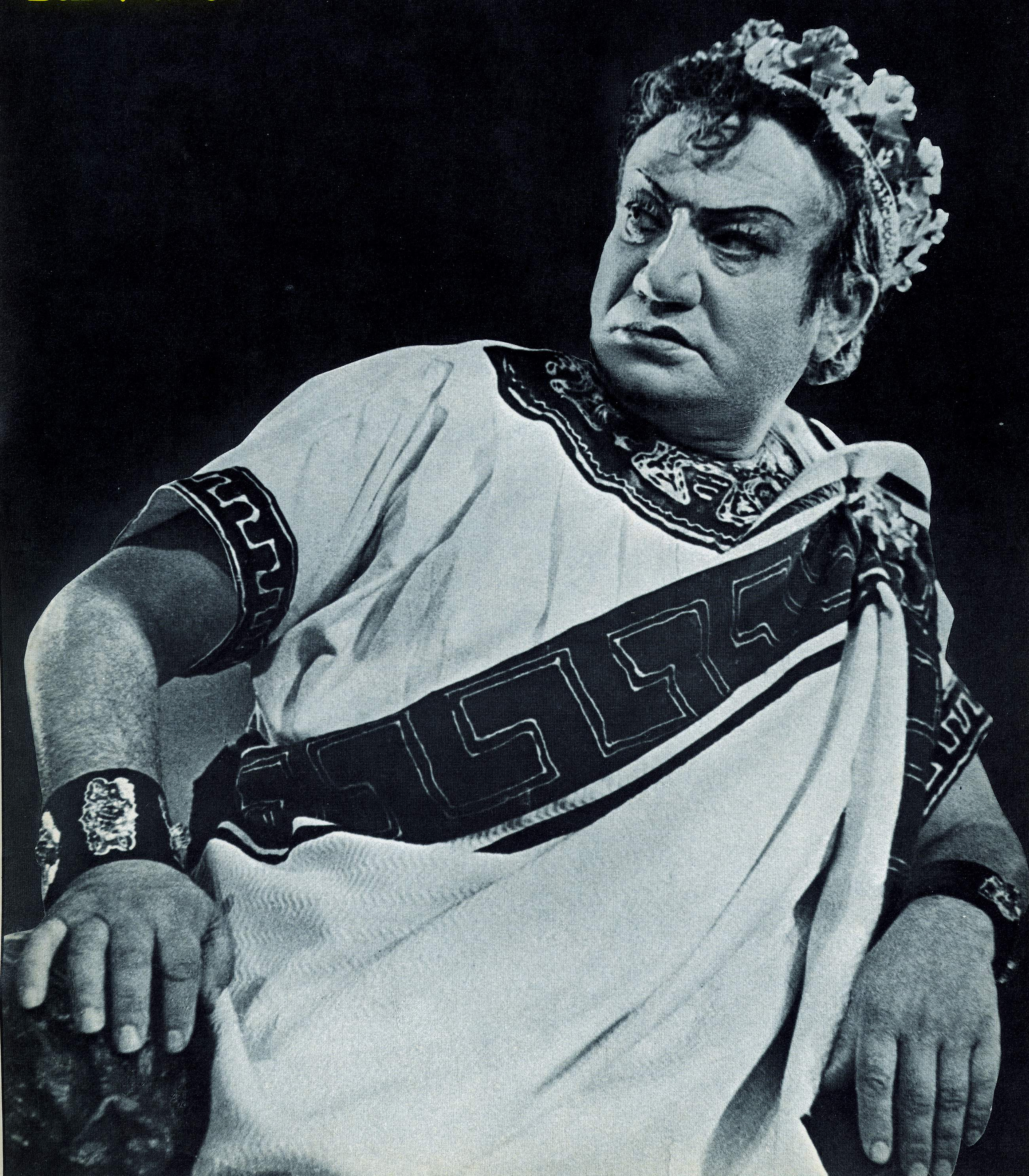 Shukur Burkhanov in a role, circa 1983